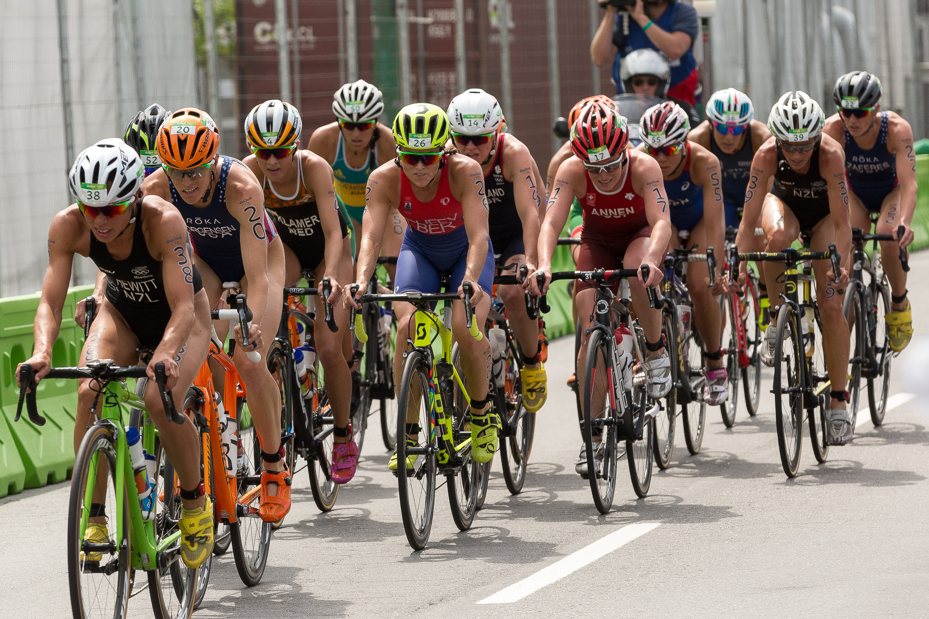 Athletes during the women's triathlon competition, Copacabana , Rio de Janeiro